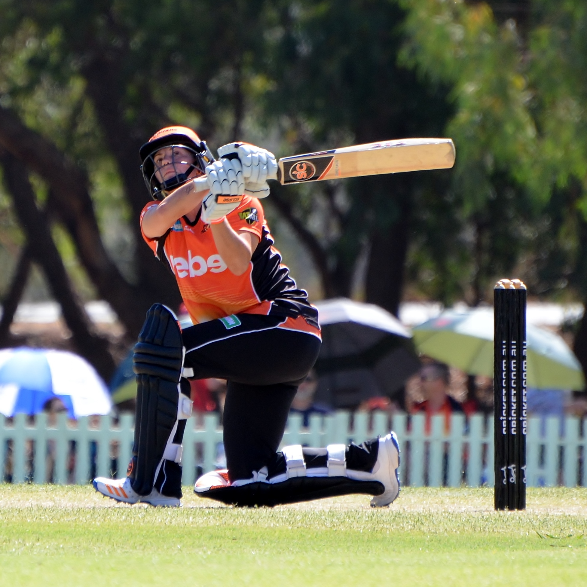 Katherine Brunt hits a six on her way to 17 for Perth Scorchers (WBBL) against Sydney Thunder (WBBL) at Lilac Hill Park, Perth, Australia.